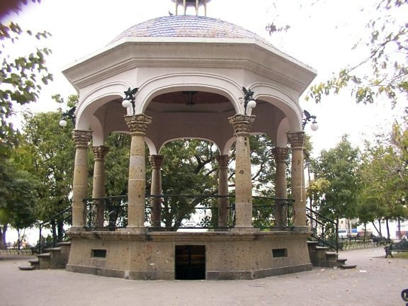 The kiosko on the central municipal plaza by the Presidencia